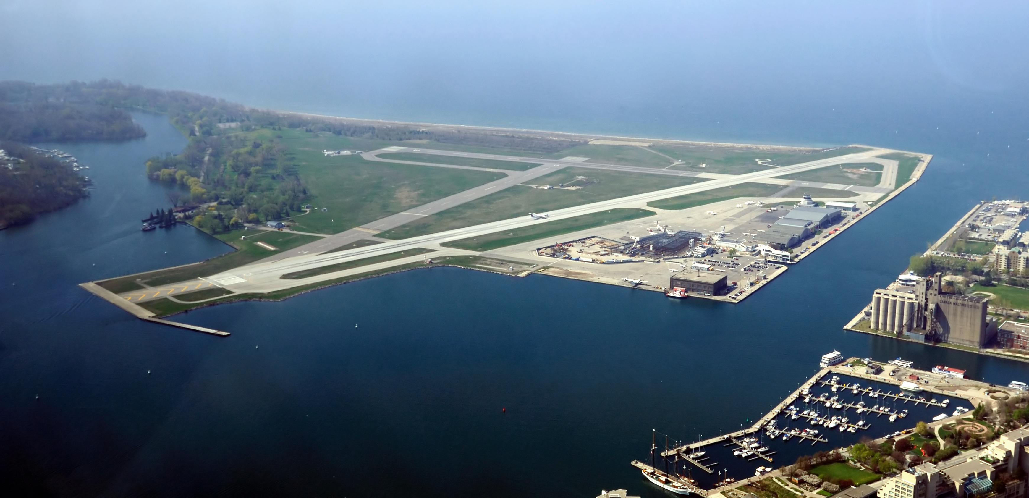 Billy Bishop Toronto City Airport as seen from CN Tower.